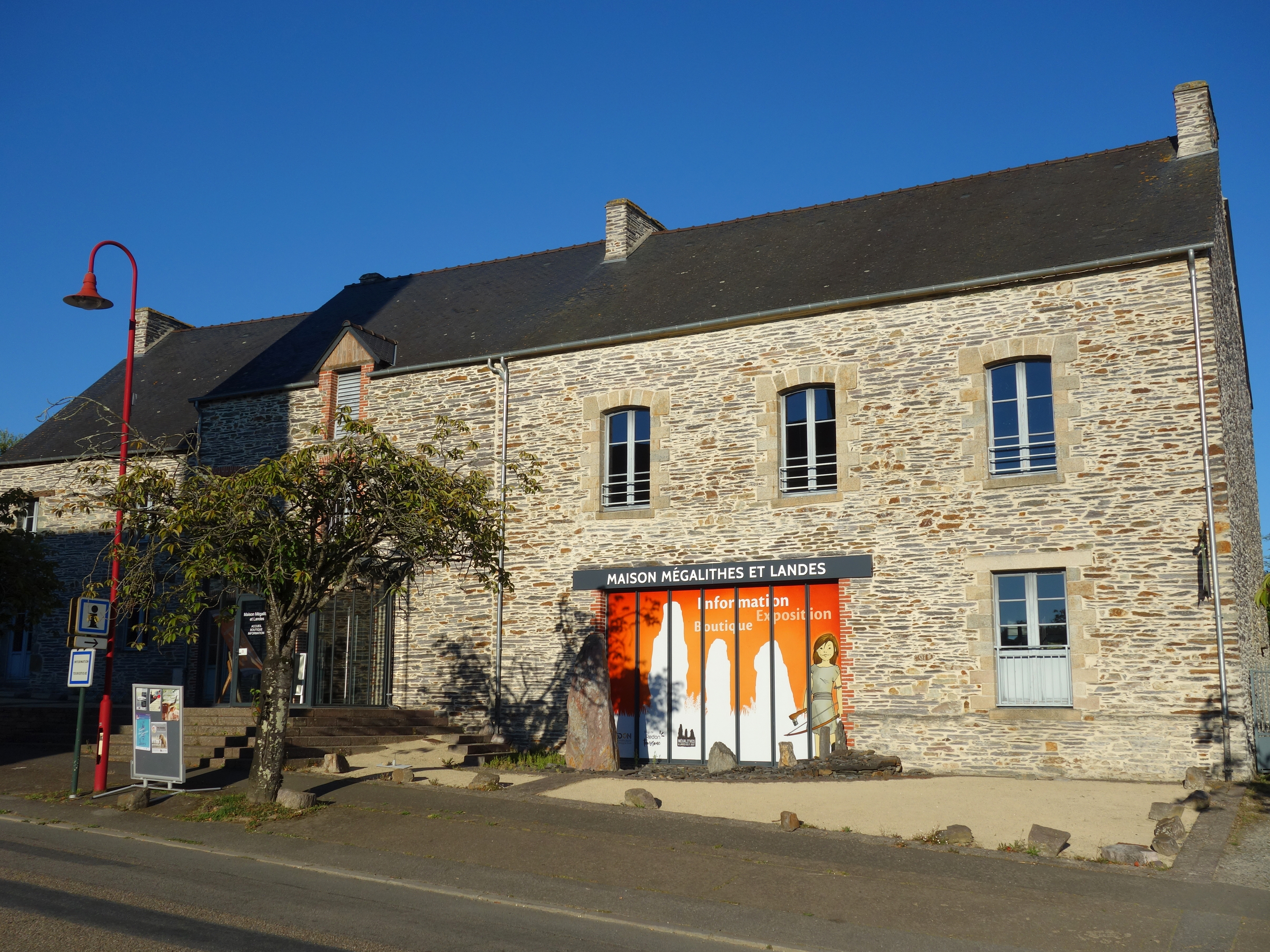 The "Maison Mégalithes et Lande", Center and site of interpretation located in a dedicated building in the center of Saint-Just near the church, is the place of discovery and information on the local megalithism.